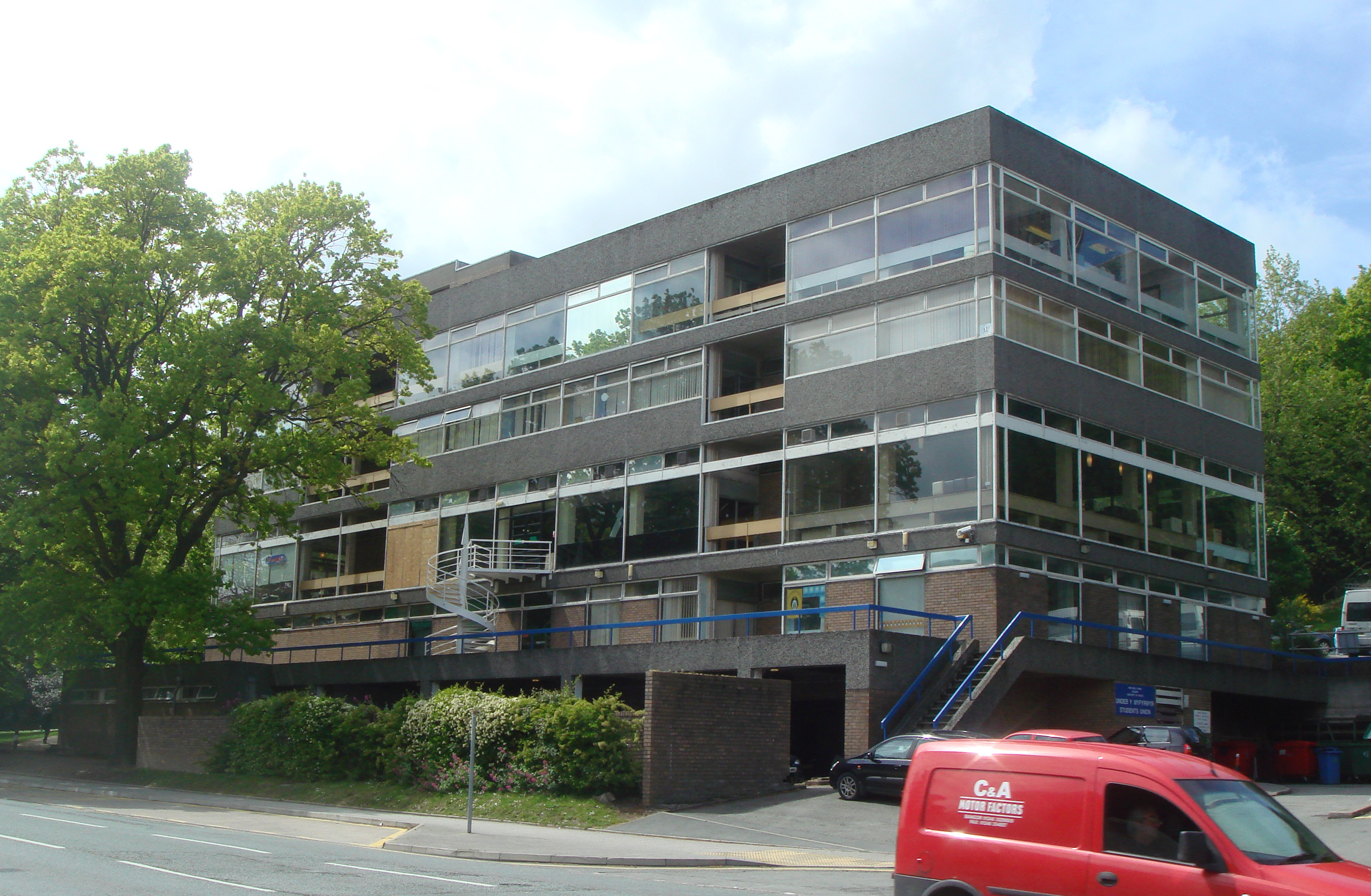 University of Wales, Bangor Students' Union as seen from Deiniol Road